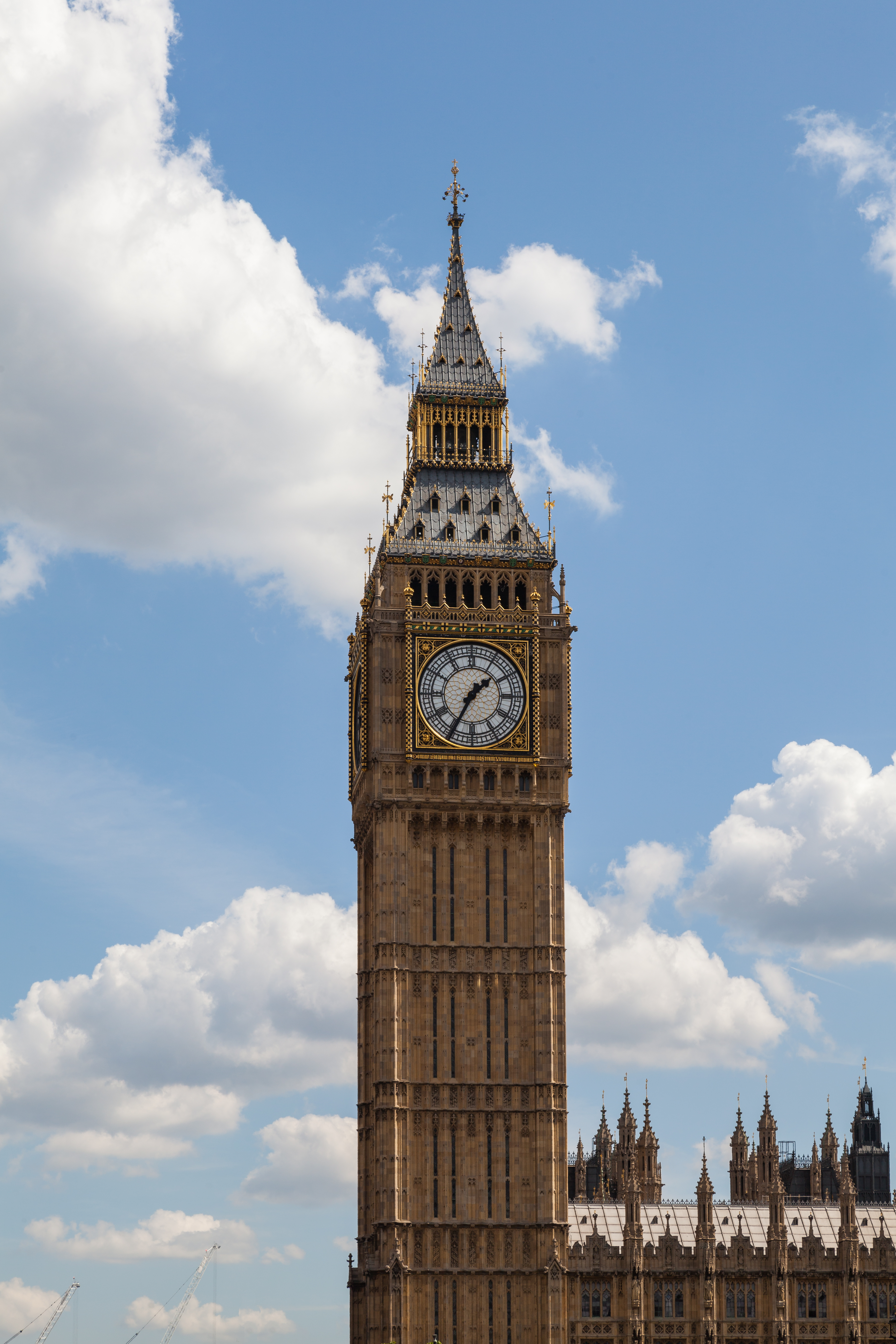 Big Ben, London, England